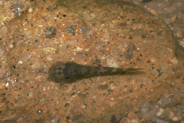 Nyctimystes dayi